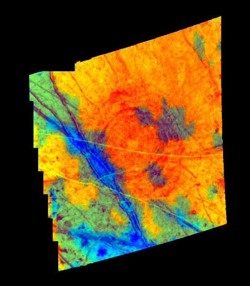 A compositional map of the impact structure Tyre on the Jovian moon of Europa, based on data from the Galileo probe.